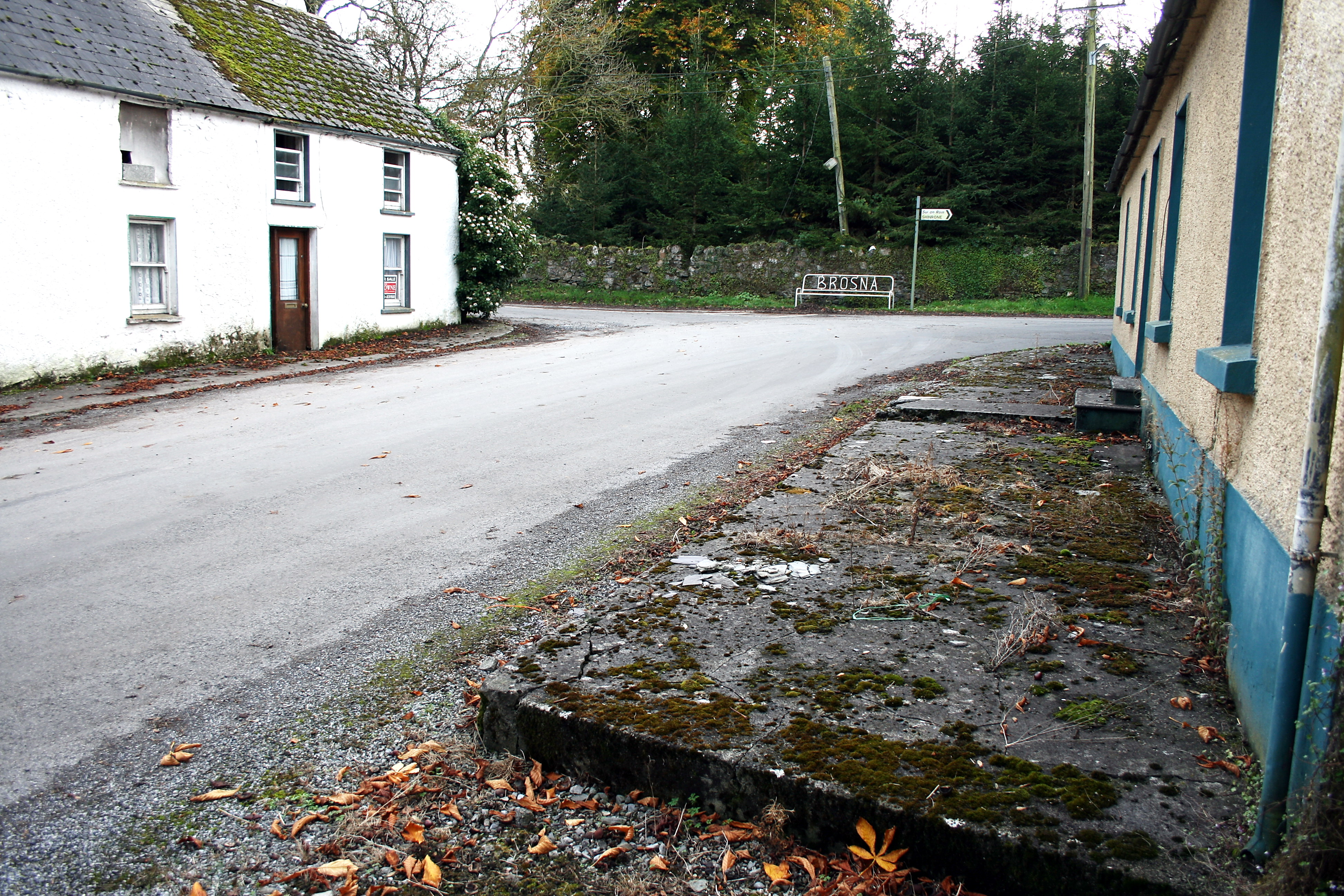 Brosna, County Offaly - the deserted village, dampness and decay